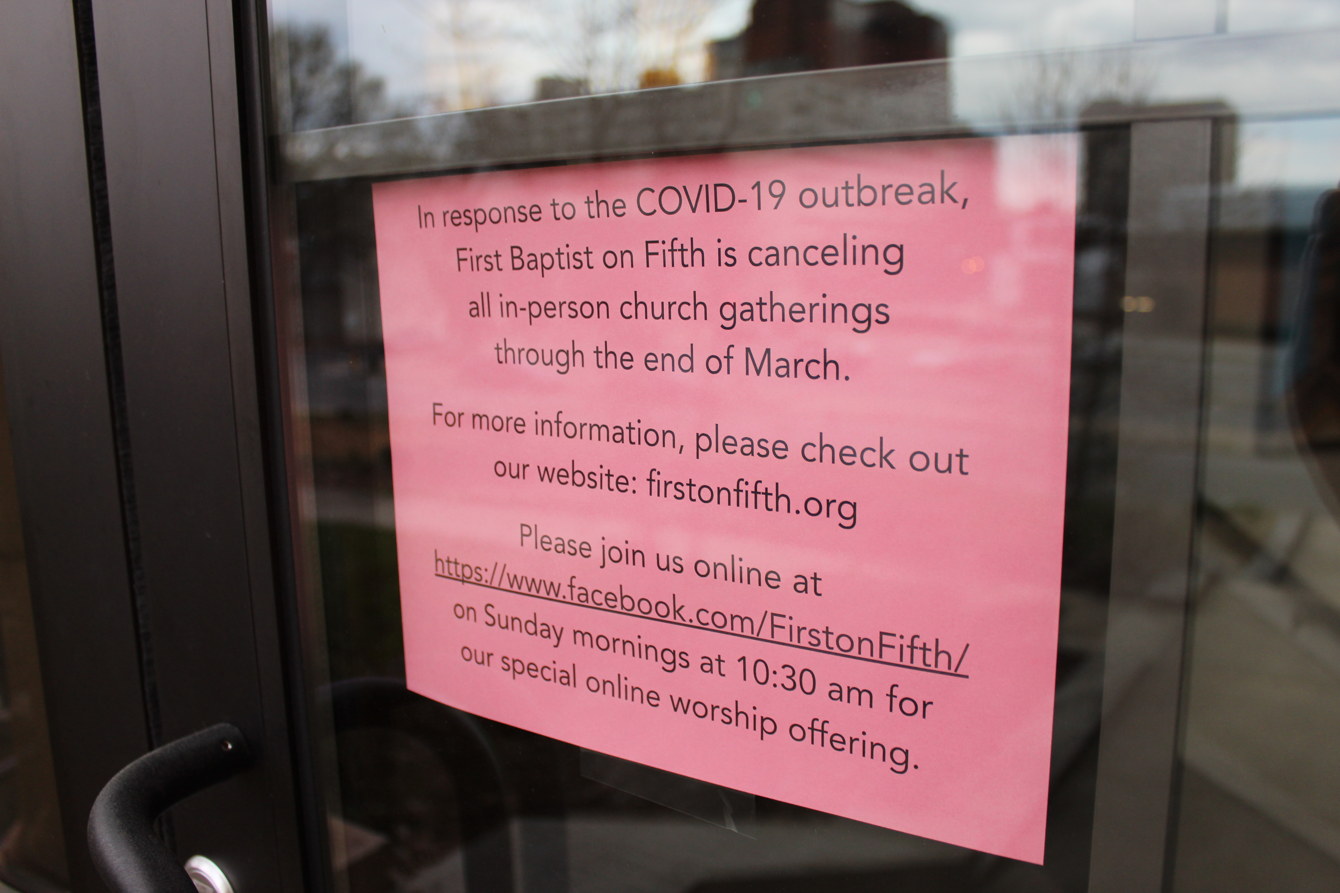 A notice about the cancelation of all gatherings at a church in until the end of March due to the 2020 coronavirus pandemic in North Carolina.